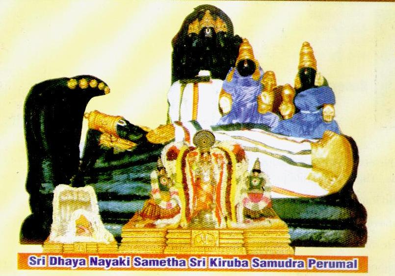 Sri ArulMaaKadal Amudhan